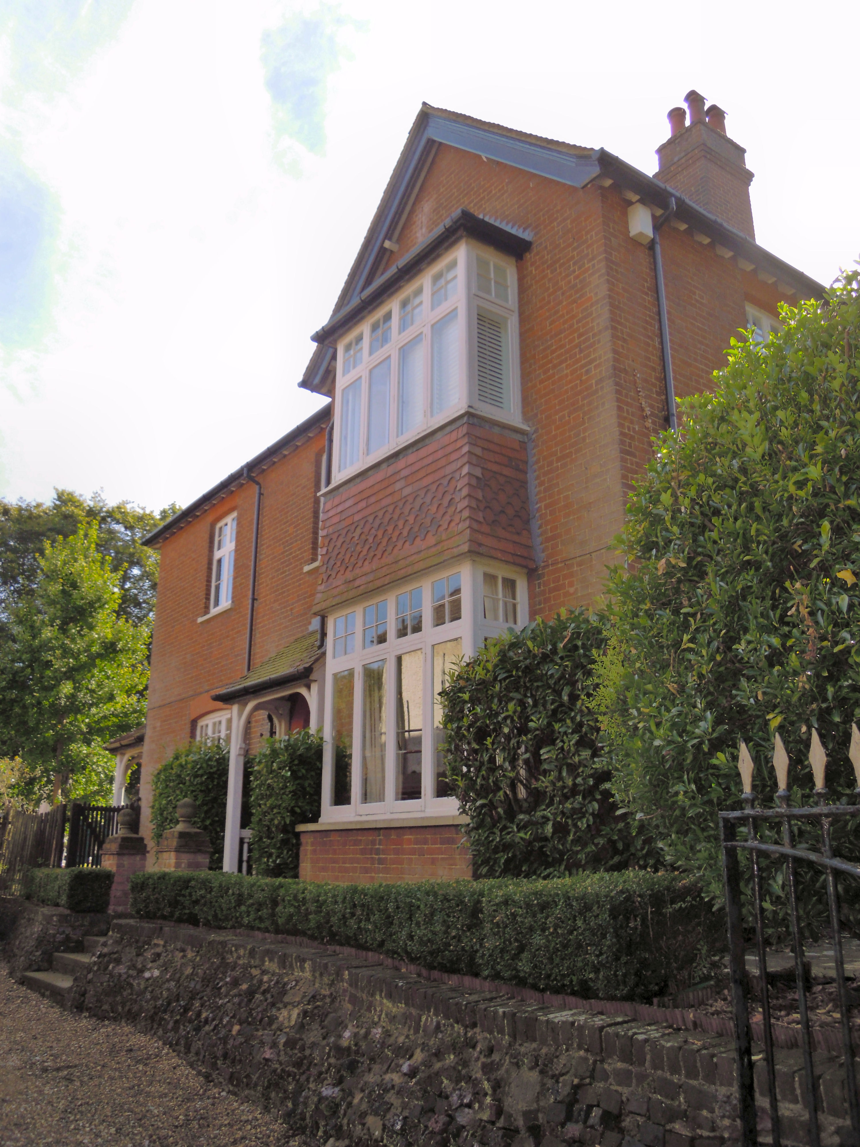 5 Highbury Road in Hitchin in Hertfordshire where author Monica Dickens lived during the events depicted in My Turn to Make the Tea.